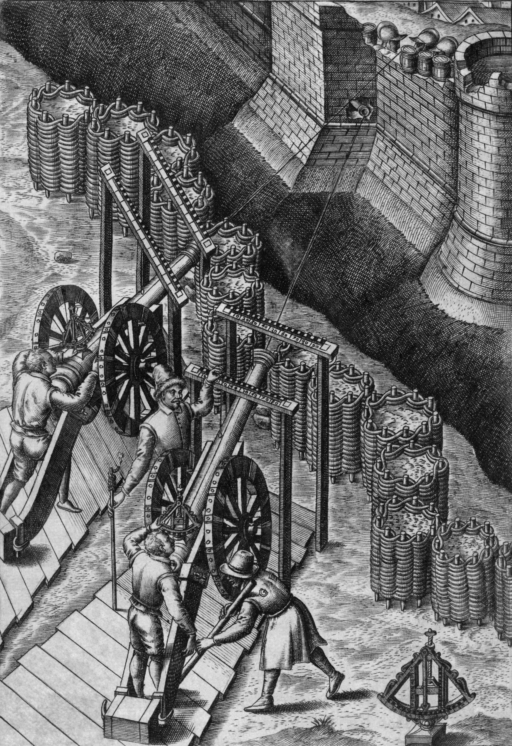 Depiction of sixteenth century cannon placements from Le diverse et artificiose machine del capitano Agostino Ramelli, page 708 of 720